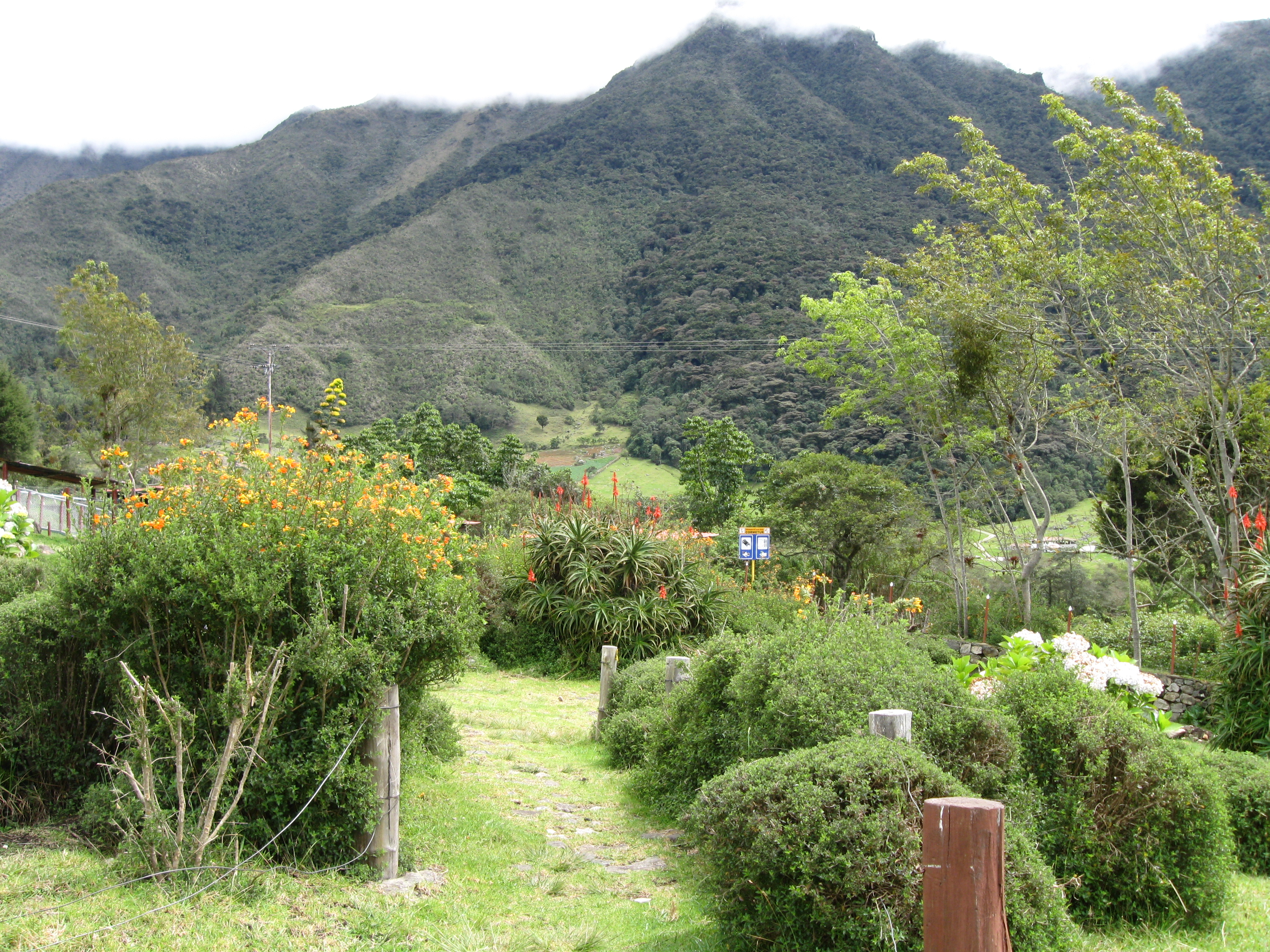 Paisaje de la Sierra de La Culata, Edo. Mérida.